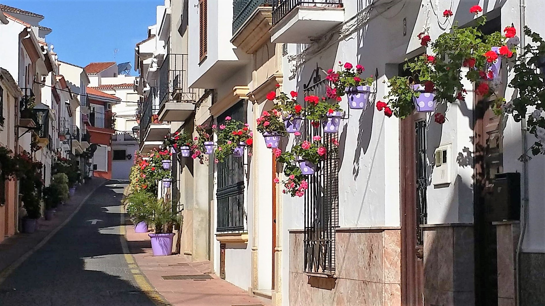 Flowers decorate the streets of Estepona